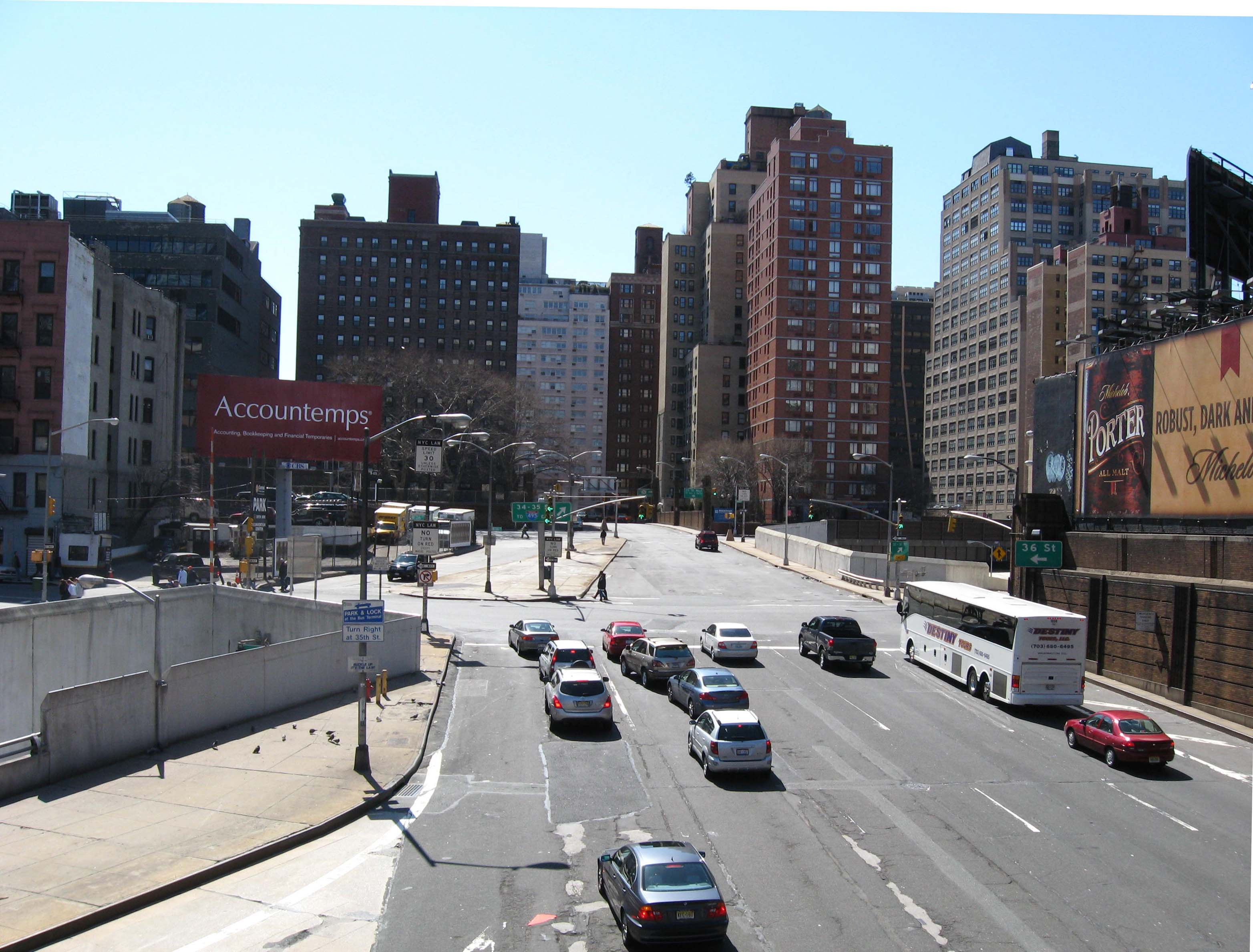 Lincoln Tunnel exit ramp climbing south in Hell's Kitchen, Manhattan. I took this picture standing on the West 37th Street overpass on a sunny early afternoon in early spring looking towards 36th and 35th. Replaced for the tunnel article May 2009 by File:Lincoln Manh portal 9-38 jeh.JPG.